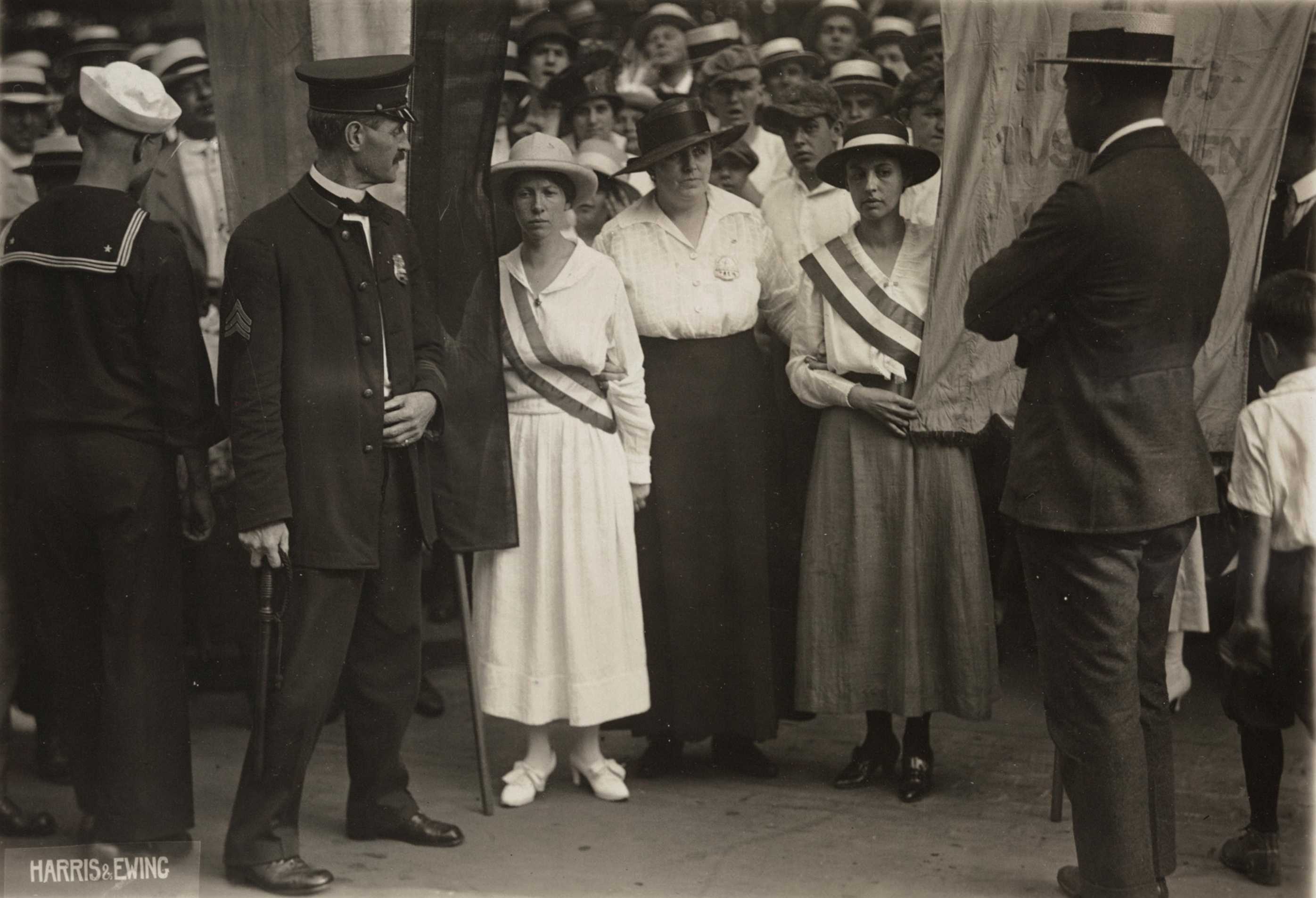 Photograph of Catherine Flanagan (Left) and [Mrs. William Upton (Madeleine) Watson?] ( R) of the National Woman's Party being arrested as they picket with banners before the White House East Gate. Heckling sailor to left, policemen left and right, arresting policewoman center, crowd of men behind.